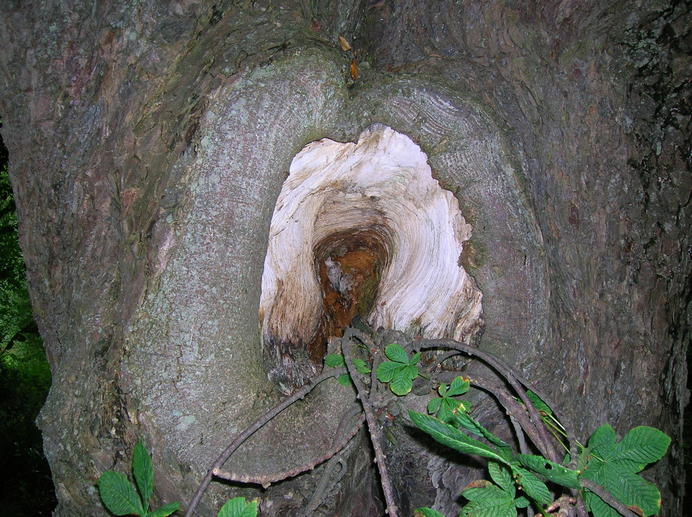 Branch hole in Horse Chestnut with callus growth, Dumfries House, East Ayrshire, Scotland.